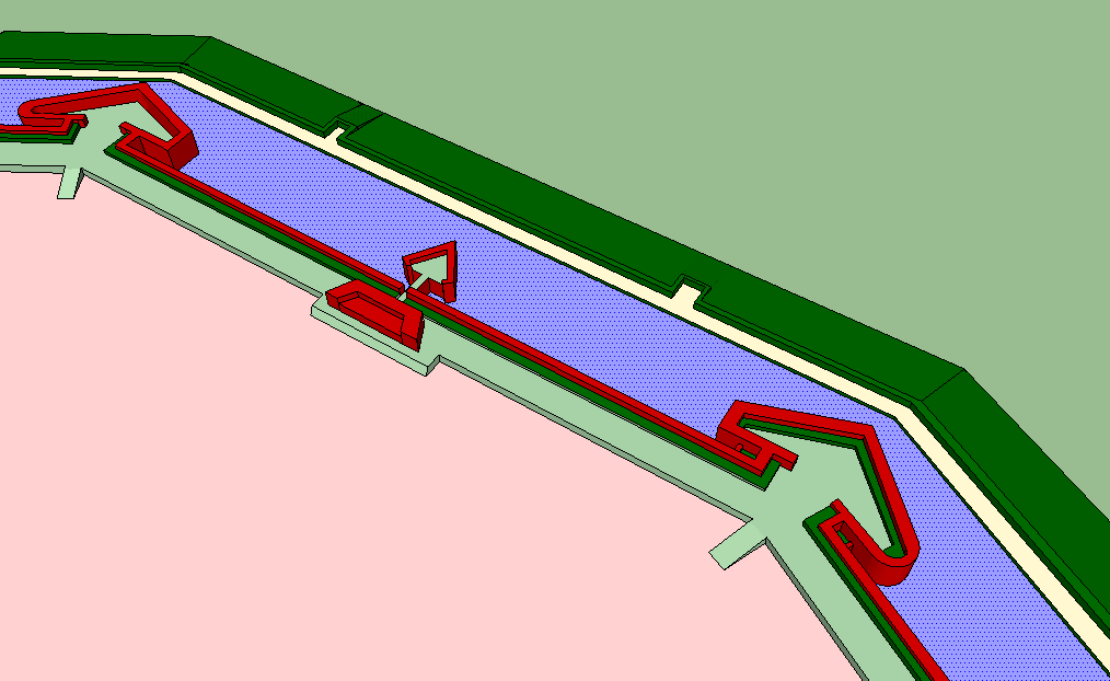 Fortifications Italian style